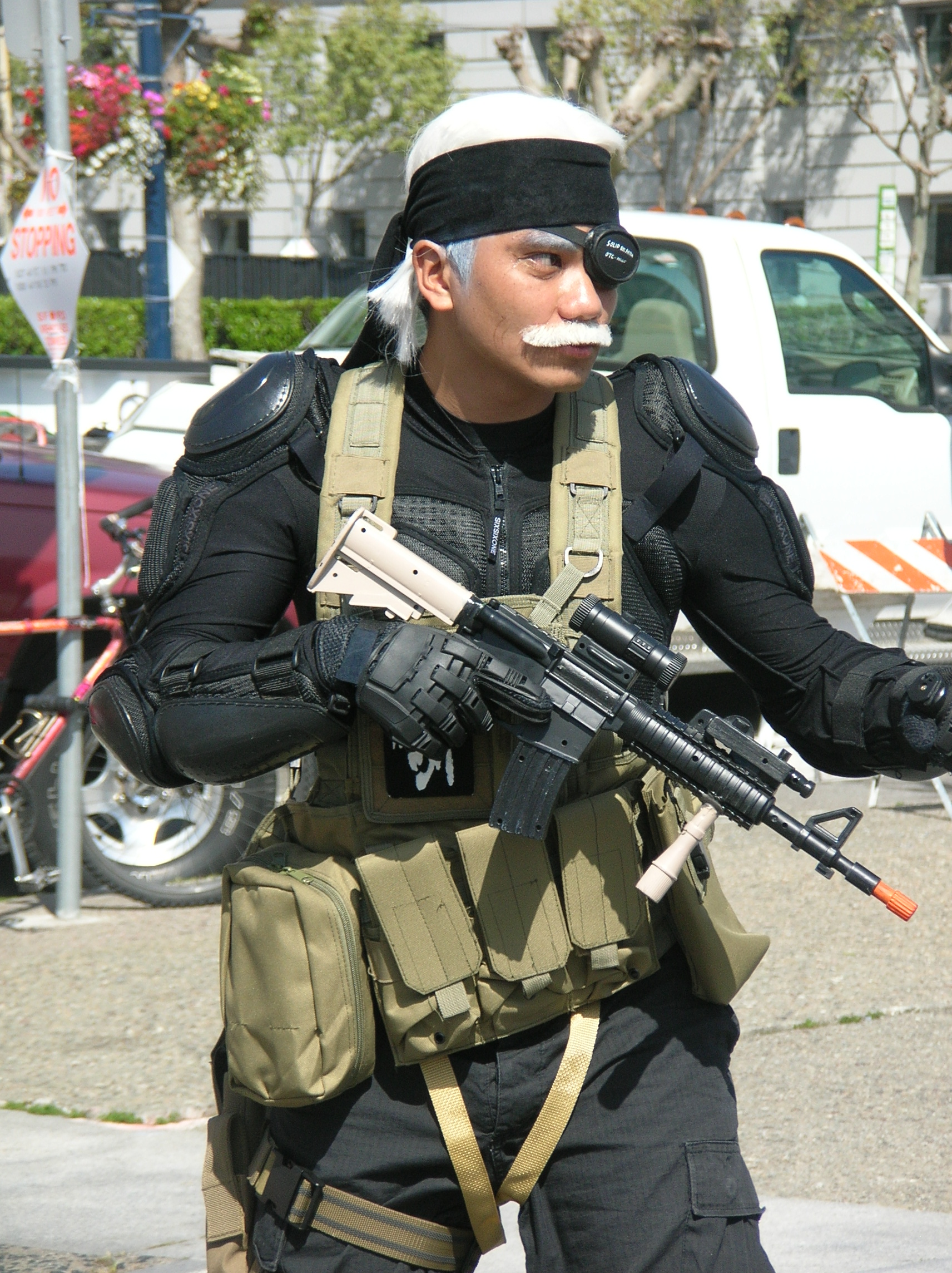 A cosplayer portraying Solid Snake from Metal Gear Solid 4: Guns of the Patriots competing in the costume contest at the Northern California Cherry Blossom Festival.